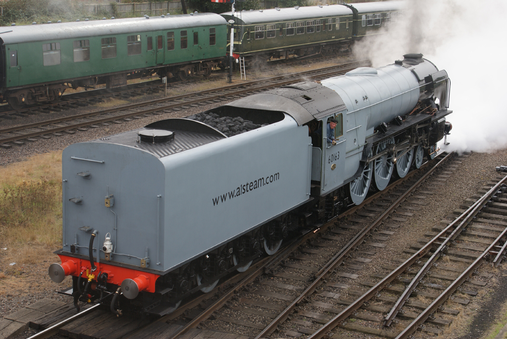 60163 Tornado at the Grand Central Railway, 4th October 2008